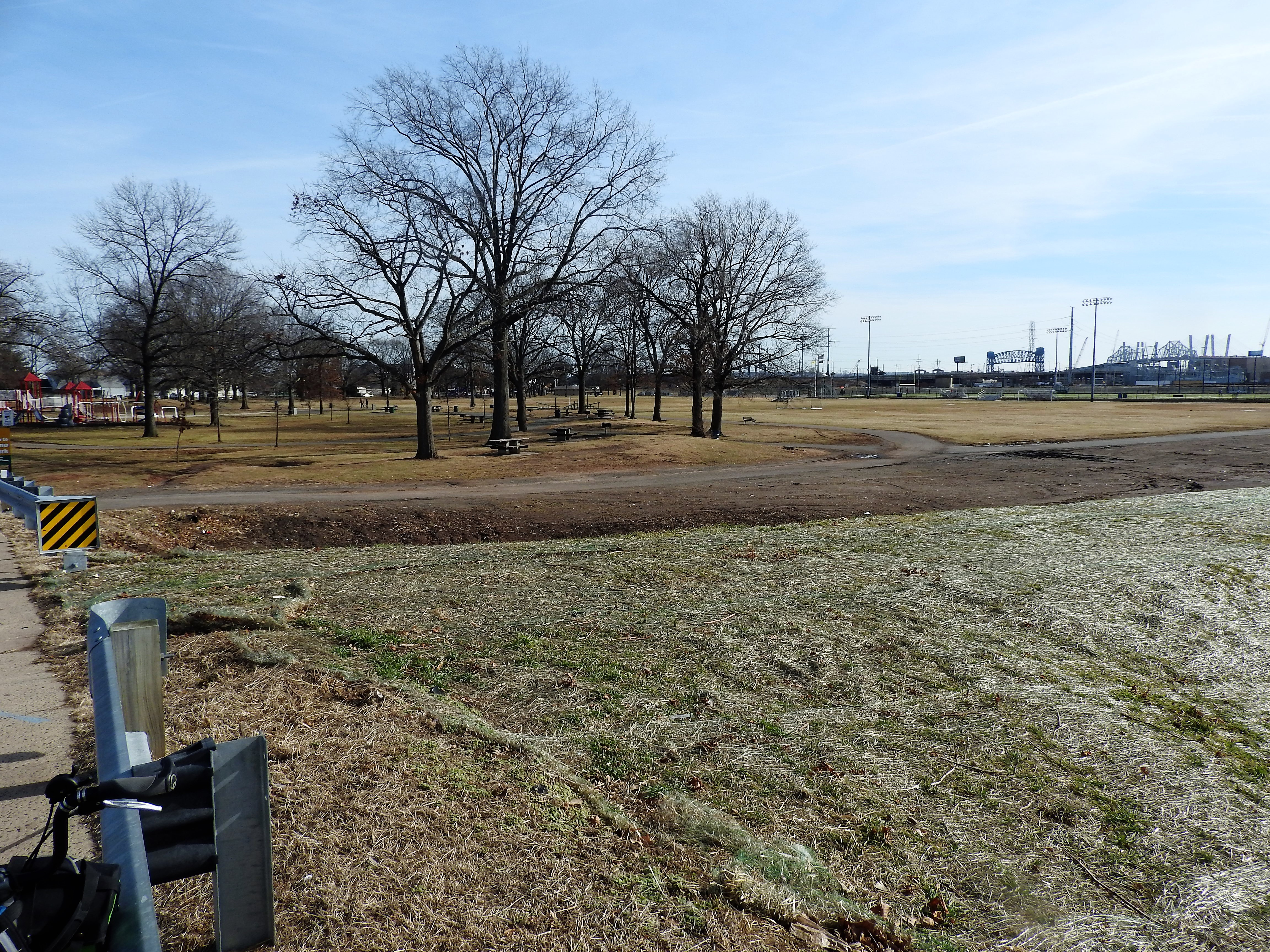 Looking southeast at park